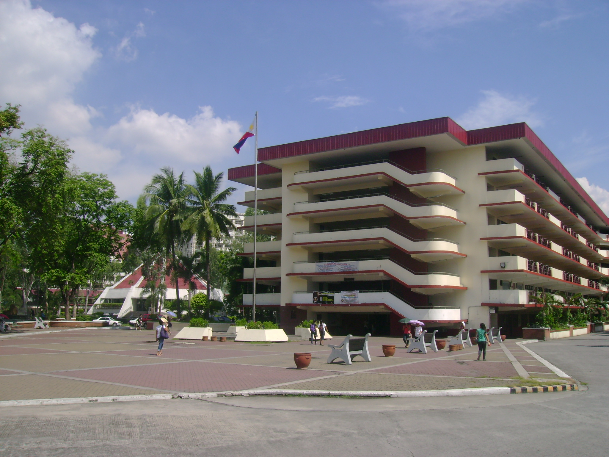 Main building of the PUP Campus in Santa Mesa, Manila